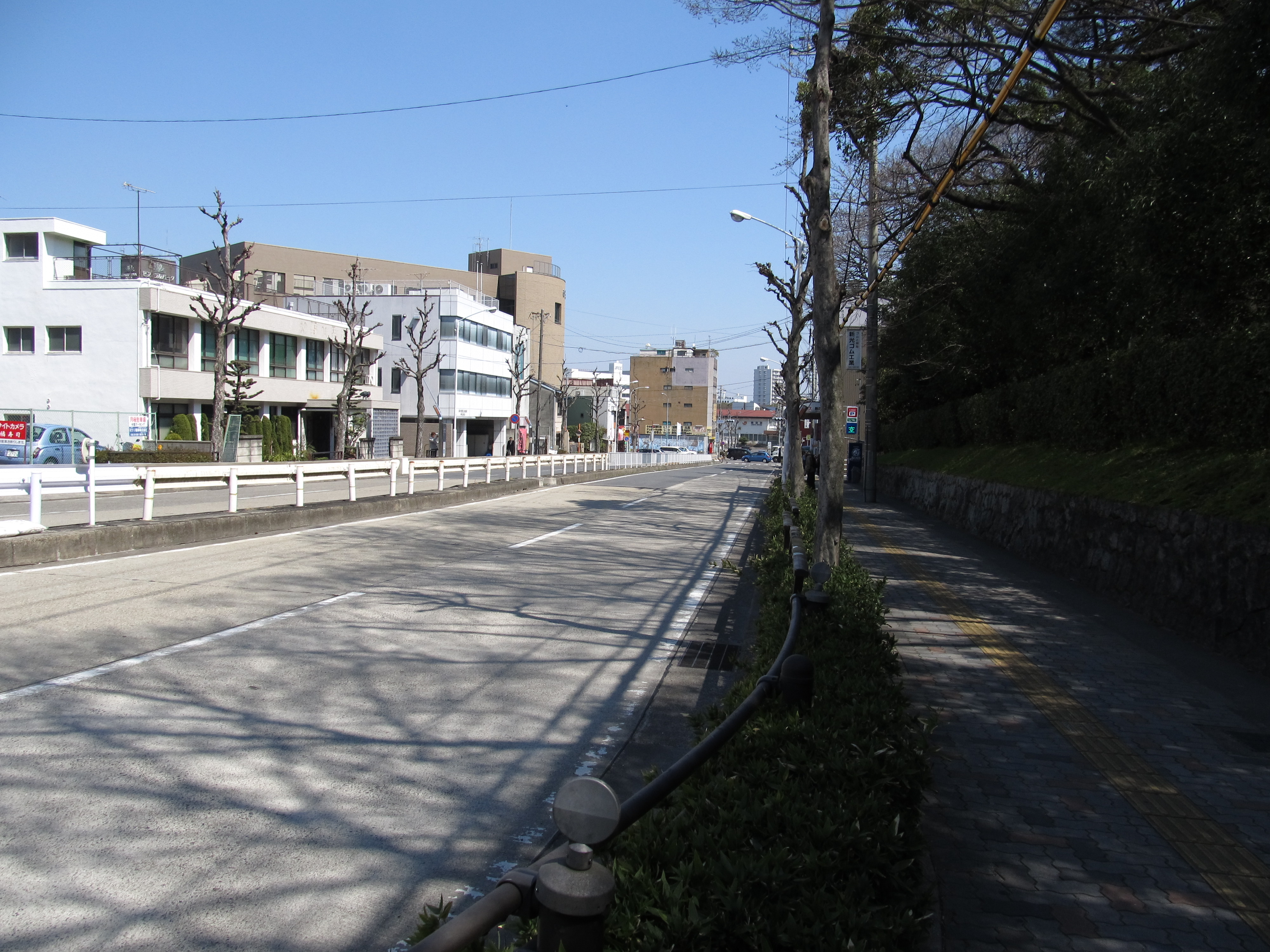 The Aichi Prefectural Road Route 224